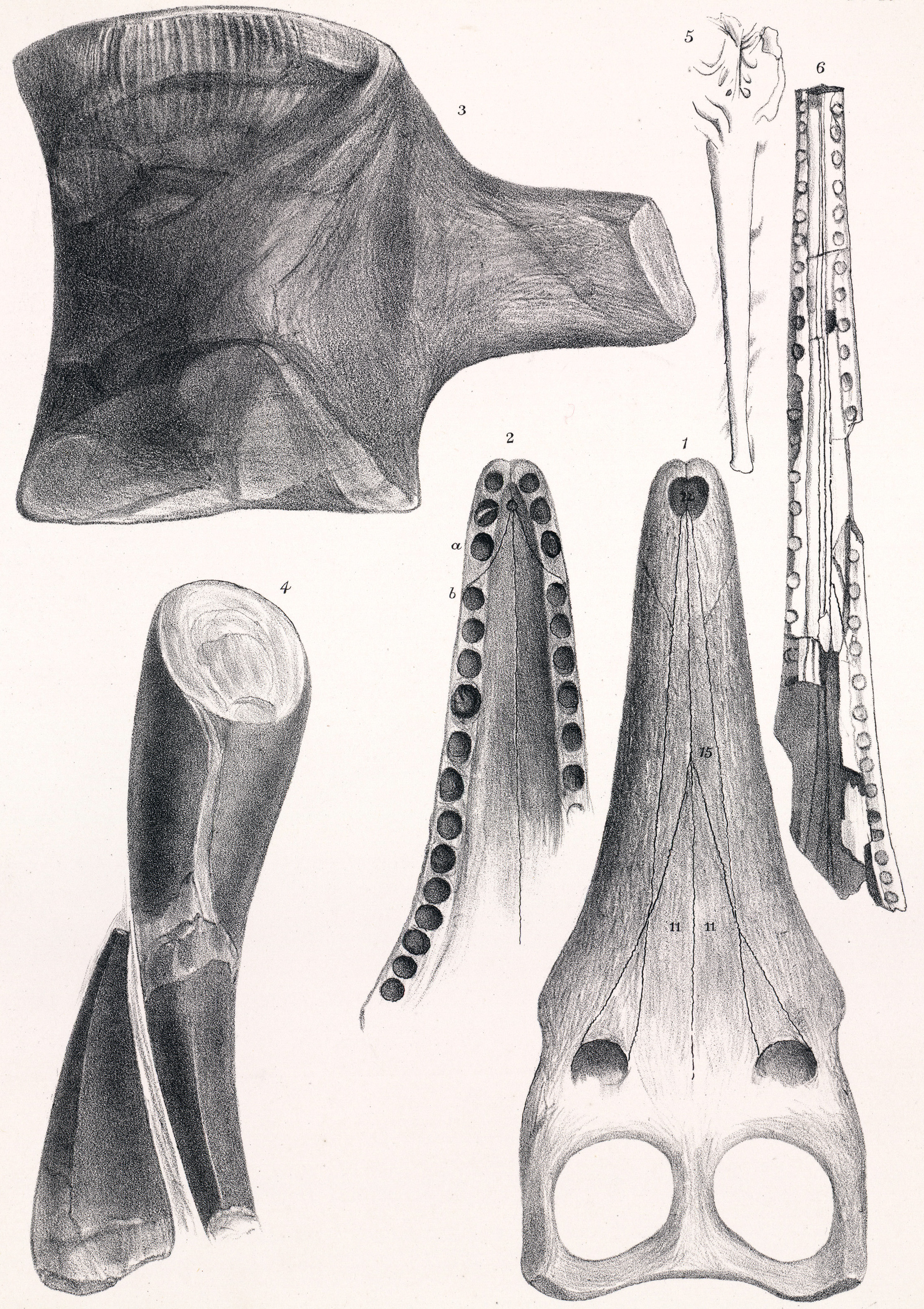 Crocodilia.—Plesiosuchus Mansellii. Fig. 1. Upper view of skull, one sixth natural size. Fig. 2. Under view of part of palatal surface of the same, one sixth natural size. Fig. 3. Side view of a dorsal vertebra of the same, natural size. Fig. 4. Portions of an upper and lower tooth of the same, natural size. Fig. 5. Upper view, in outline, of the skull of the type-species of the genus Steneosaurus, Geoffroy St. Hilaire (after Cuvier, 'Ossemens Fossiles,' 4to, vol. v, pt. ii, pi. vii, fig. 13, one twelfth natural size). Fig. 6. Under view of part of the palatal surface of the skull of another specimen of Geoffroy's Steneosaurus (after Cuvier, 'Ossemens Fossiles,' ut supra, fig. 8, one fourth natural size. The specimens of Plesiosuchus are from the Kimmeridge Clay, Dorsetshire, and are in the British Museum of Natural History, Cromwell Road.